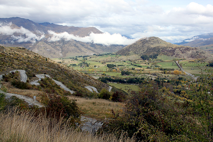 The zig zag on the Crown Range Road between Arrowtown and Wanaka in New Zealand. Photo taken near the summit which at 1120 metres is the highest main road in NZ.